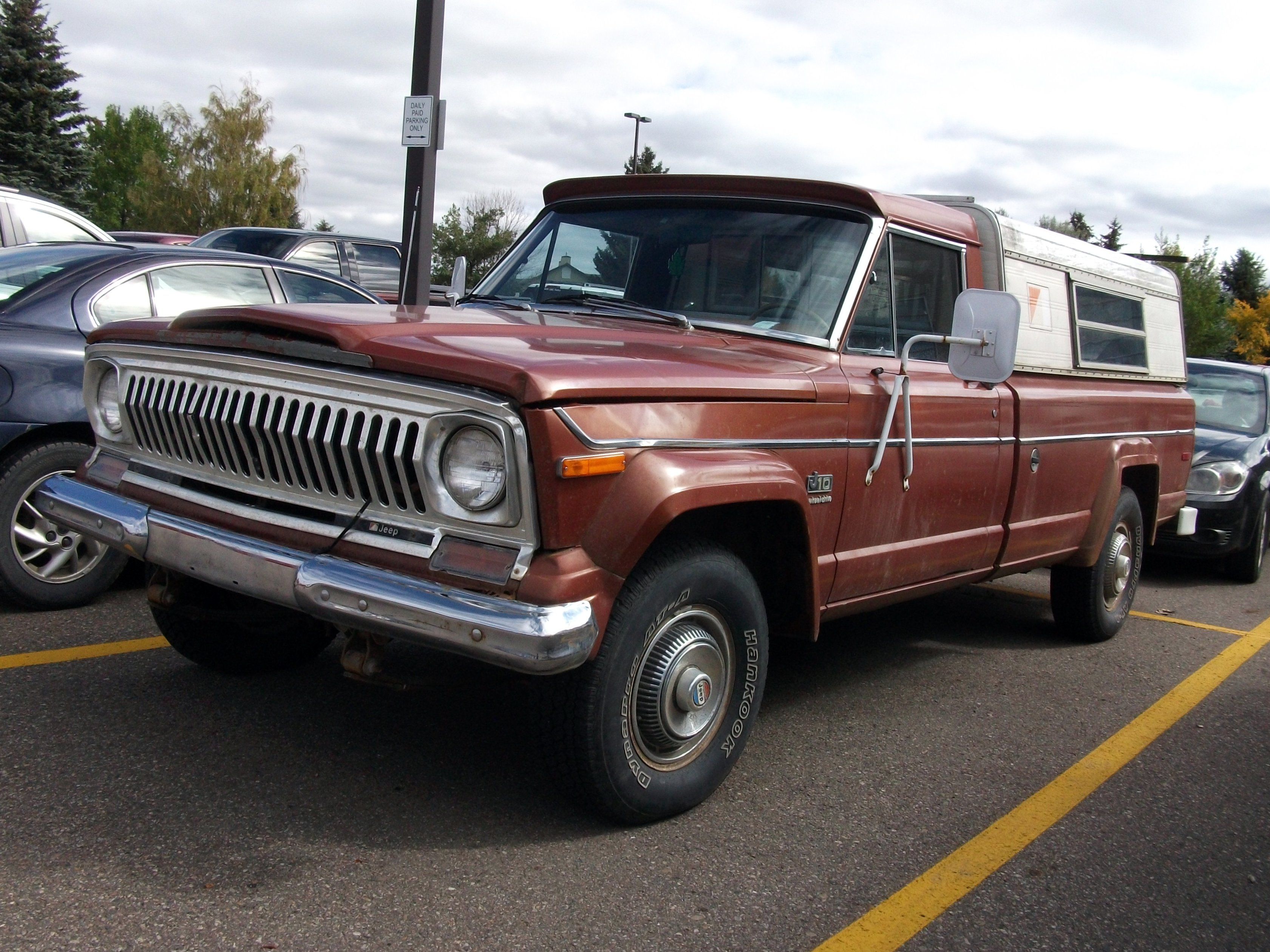 1974 Jeep J10 4x4 pickup truck with 360cid engine